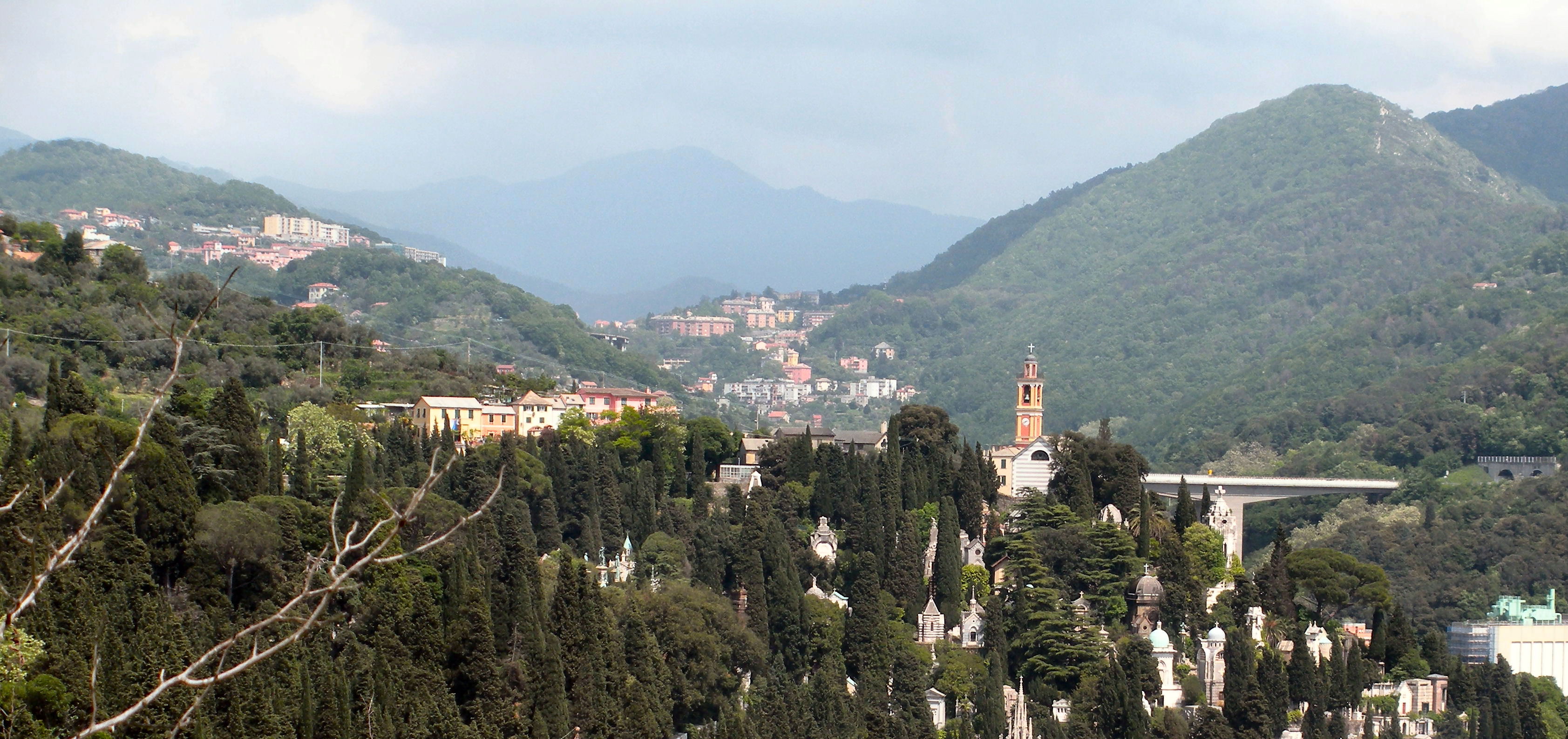 Genoa (Italy), quarter of Staglieno, view of San Bartolomeo di Staglieno